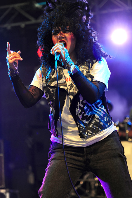 Southbound Festival 2012